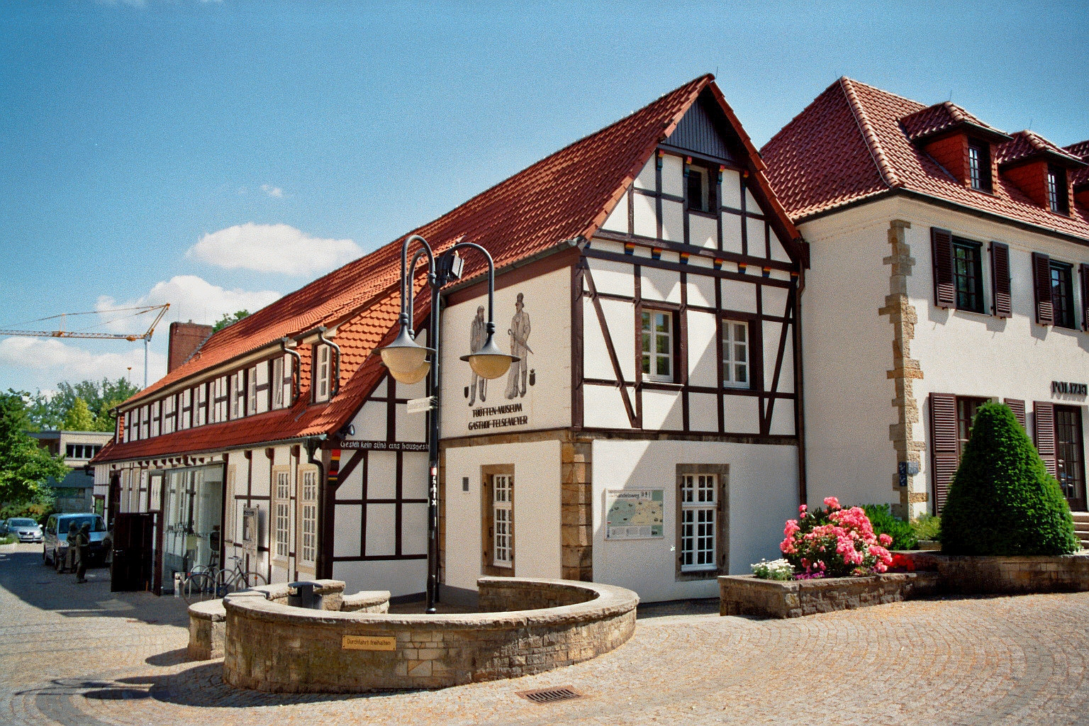 The historic part of Telsemeyer House (Haus Telsemeyer) in Mettingen, Kreis Steinfurt, North Rhine-Westphalia, Germany. It is a listed building. The whole building complex houses the town hall, the police station, a museum (Tüöttenmuseum), the tourist information, a hotel-restaurant and a shop.